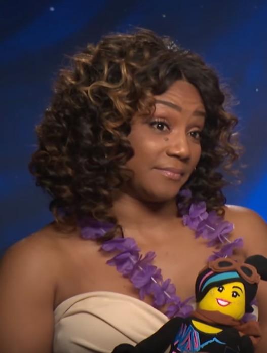 Chris Pratt, Elizabeth Banks, Tiffany Haddish and Will Arnett rummage around in MTV’s bag of tricks to reveal why EVERYTHING in it is AWESOME!